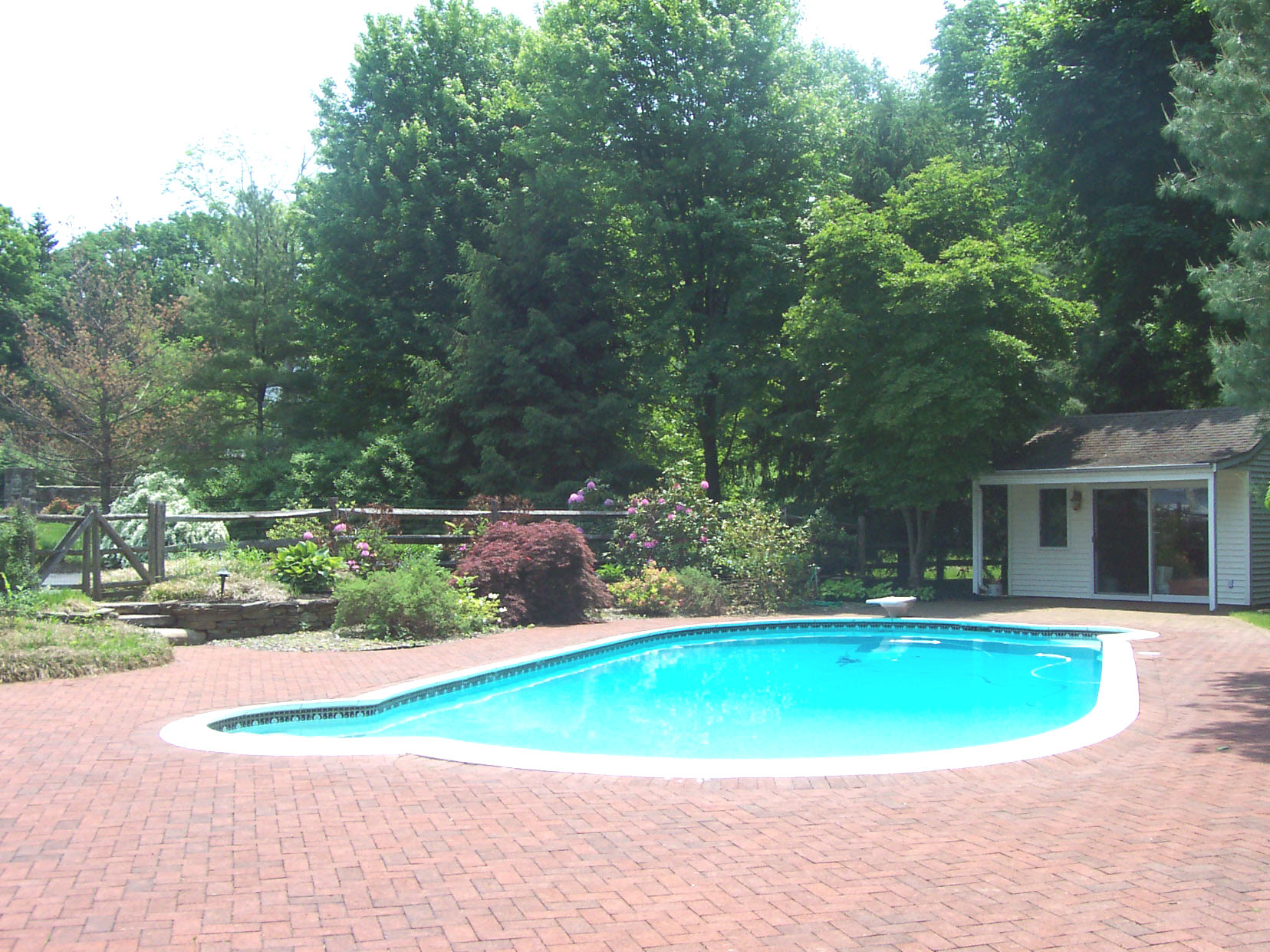 A Private Swimming Pool